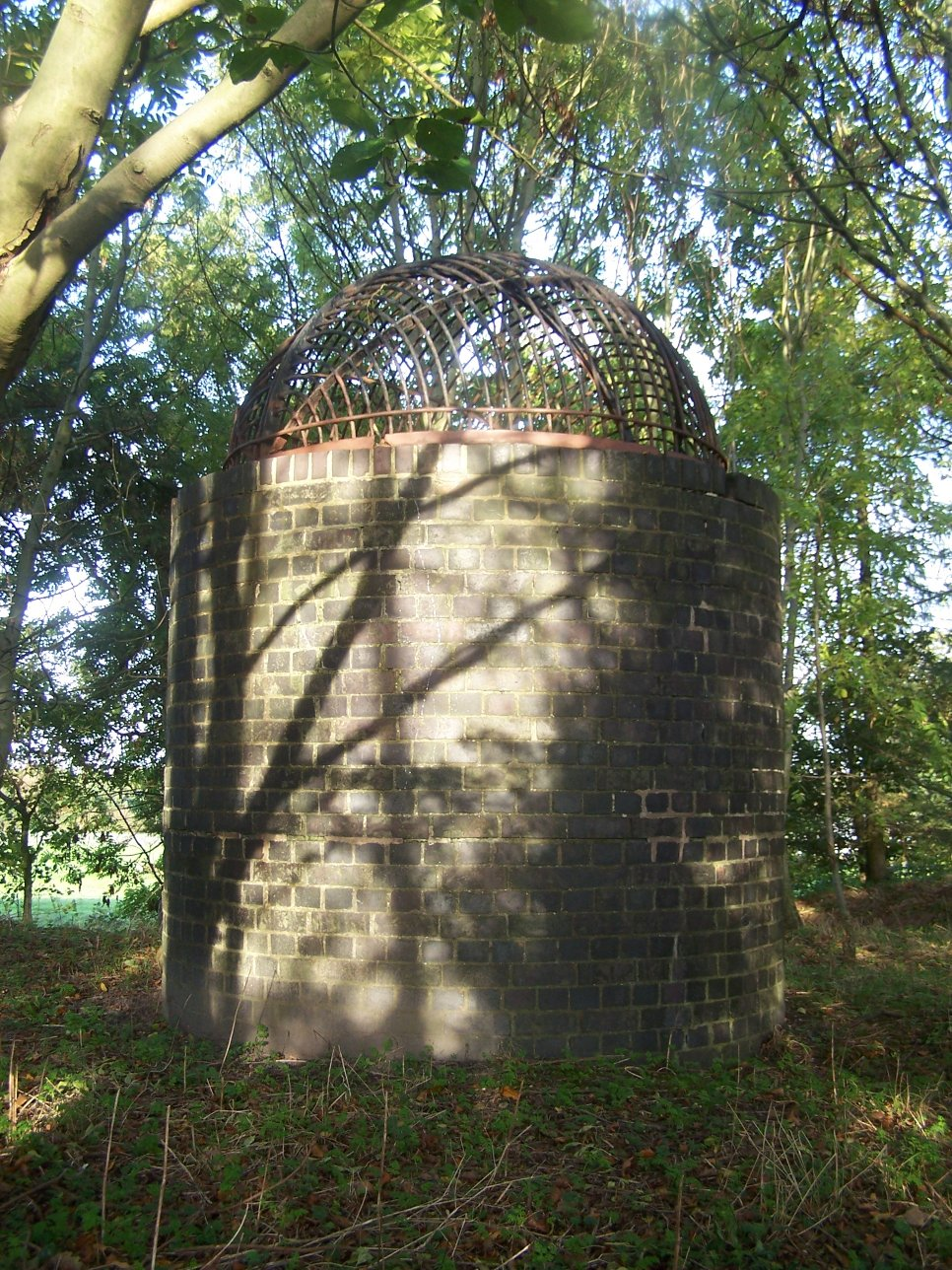 Author: Tina Cordon, Source:Own Picture, Tina Cordon 16:12, 3 November 2006 (UTC)